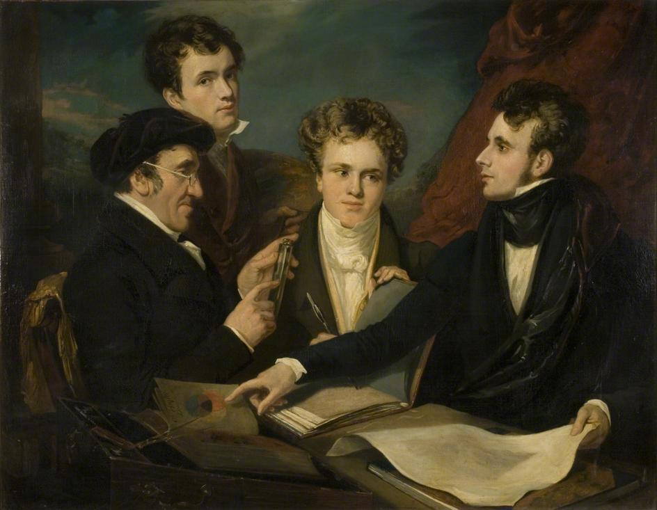 This painting, shows from left to right, Charles Hayter (1761-1835), his younger son John Hayter (1800-1891), Edwin (later Sir) Landseer (1802-1873) and Charles Hayter's older son George (later Sir) Hayter (1792-1871).